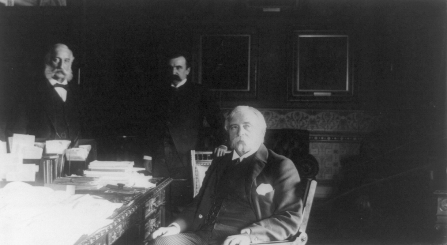 William Crowninshield Endicott, three-quarter length portrait, seated at desk, facing left, and two other men standing